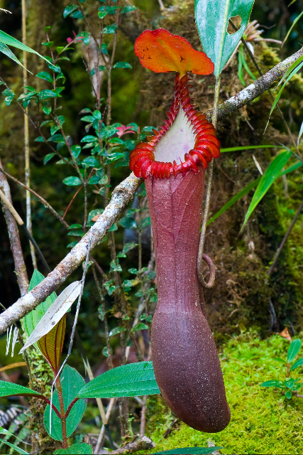 Nepenthes edwardsiana photographed on Mount Tambuyukon, Borneo (Alastair Robinson, May 2007) - upper pitcher.